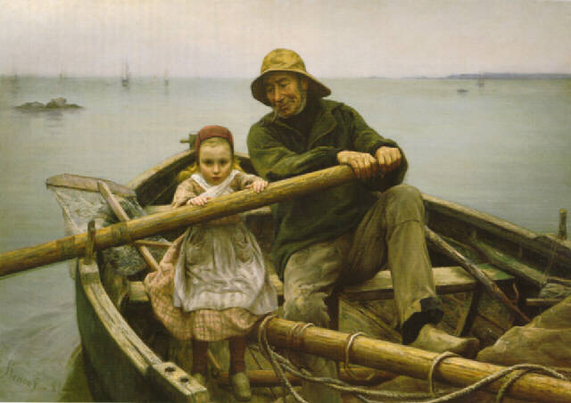 The Helping Hand.